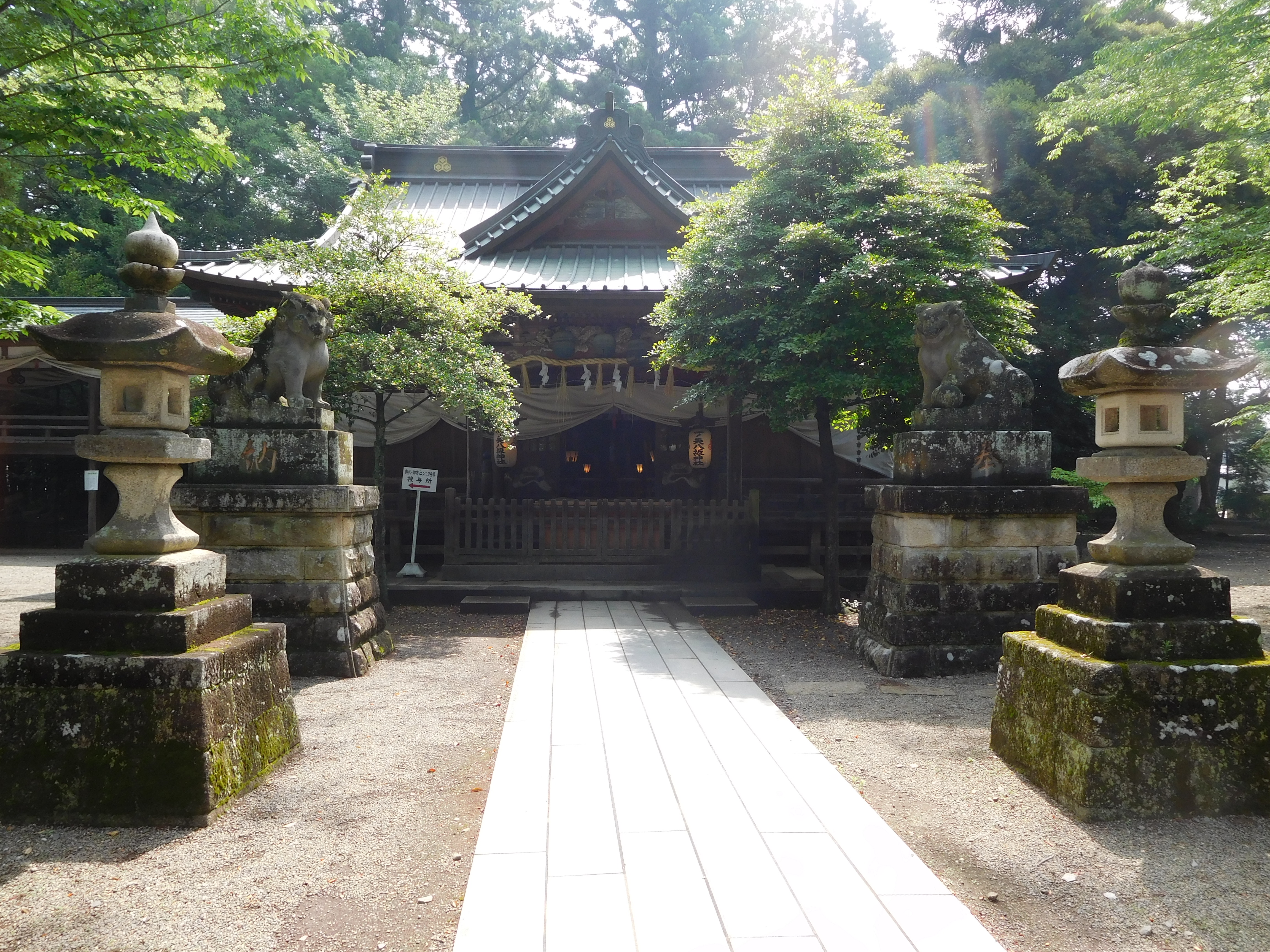 This is a haiden of Ichinoya Yasaka Shrine in Tsukuba, Ibaraki, Japan.